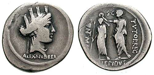 M. Aemilius Lepidus. 58 BC. AR Denarius (3.62 gm). Turreted head of Alexandrea (sic) Legend: ALEXANDREA / Lepidus crowning Ptolemy V. Legend: [PO]NT.M[AX] / TVTOR REG(IS) In exergue: [M] LEPÏDVS. Crawford 419/2 var. (reverse legend). Aemilia 24 var. (obverse legend)